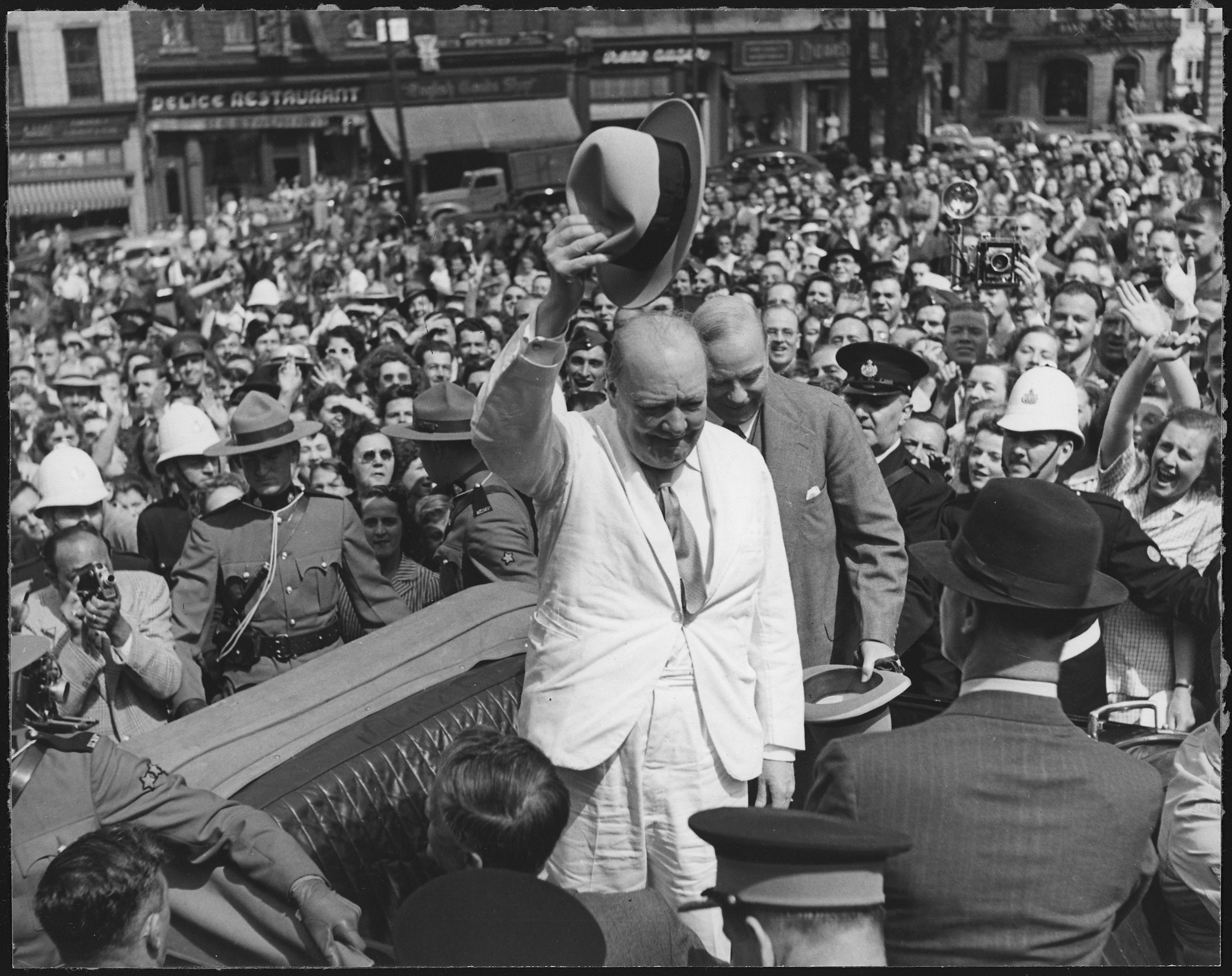 Winston Churchill in front of the City Hall of Québec